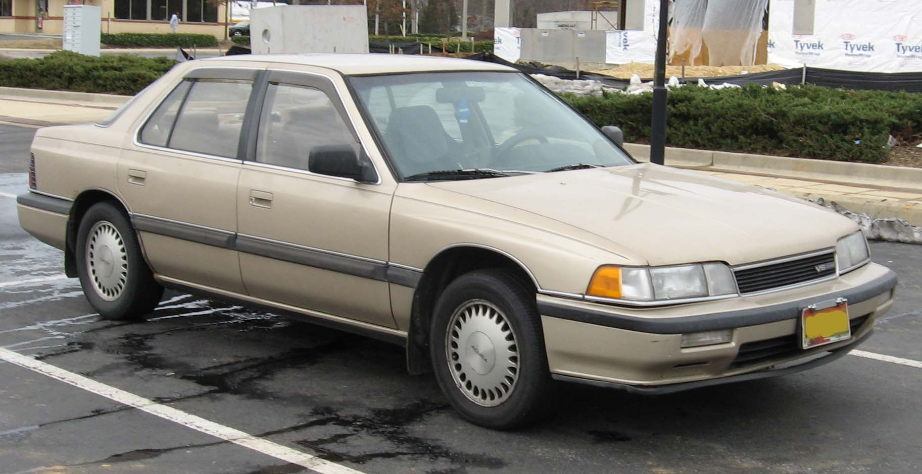 First generation Acura Legend photographed in USA.